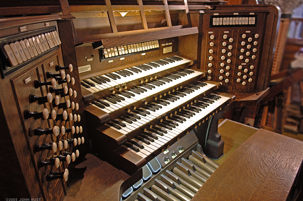 All Saints Catholic Church Organ Console New York City